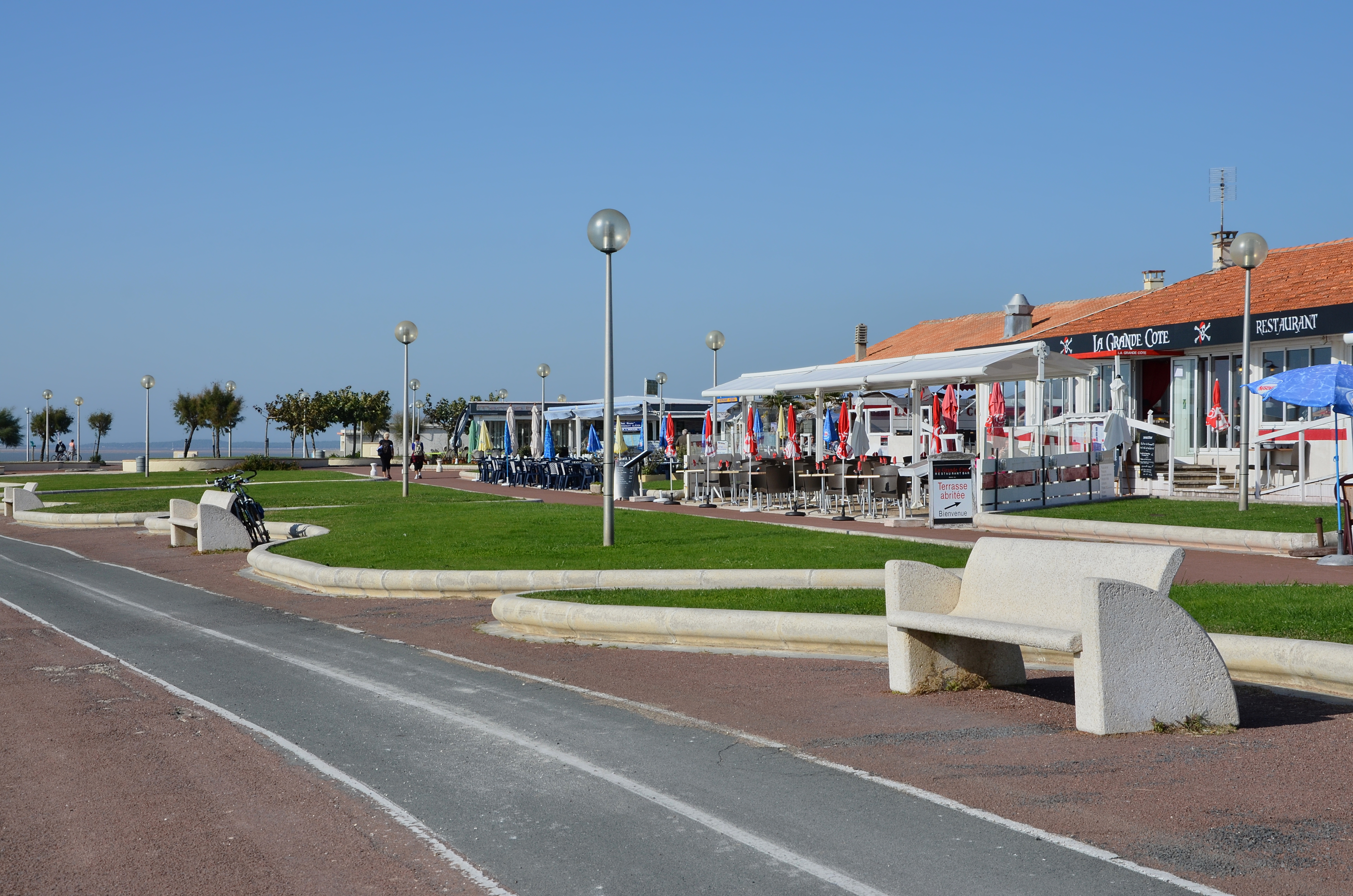 Bike path, lawns and terraces of cafés, la Grande Côte, Saint-Palais-sur-Mer, Charente-Maritime, France.